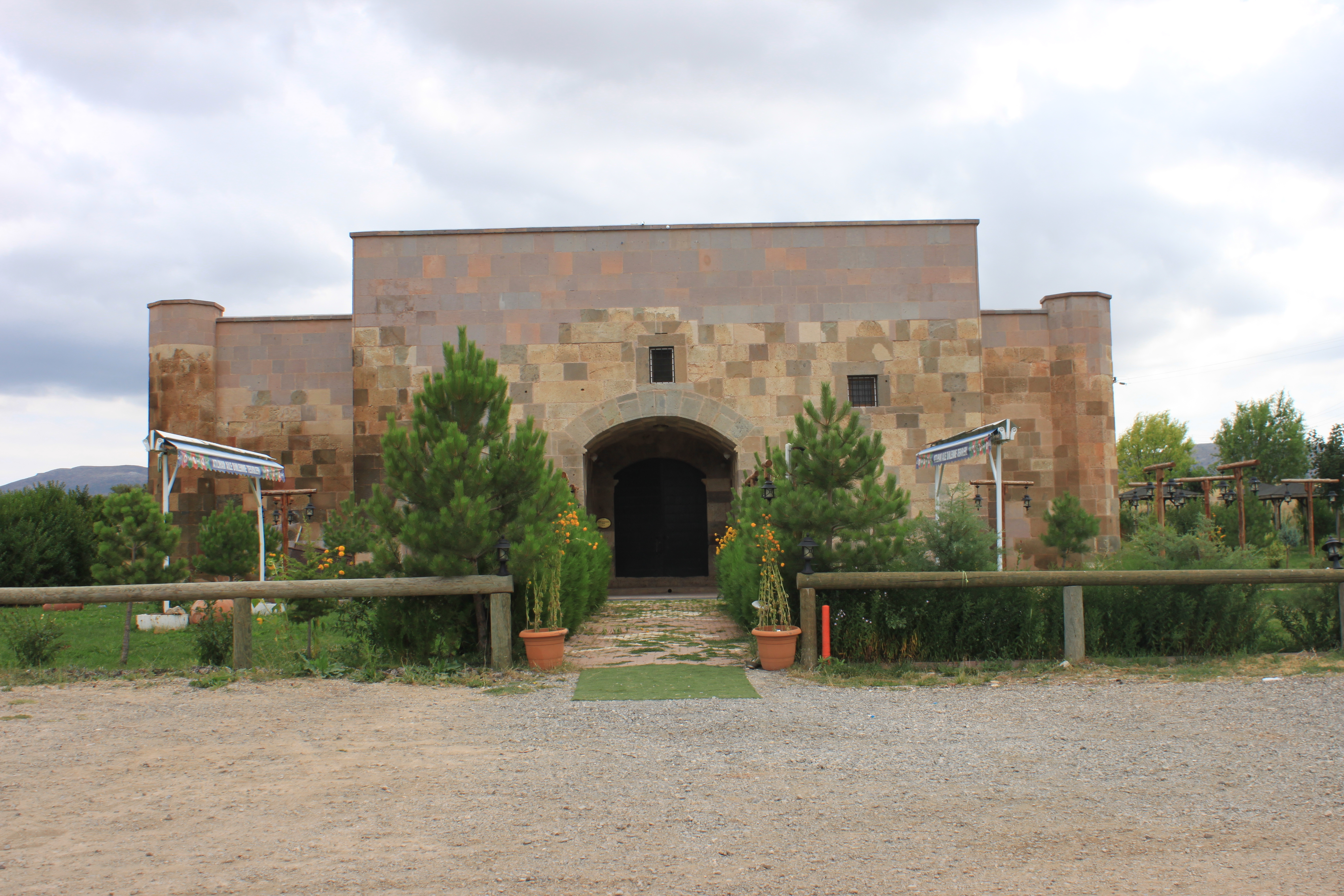 Kervansaray, Han, historical building, accommodation